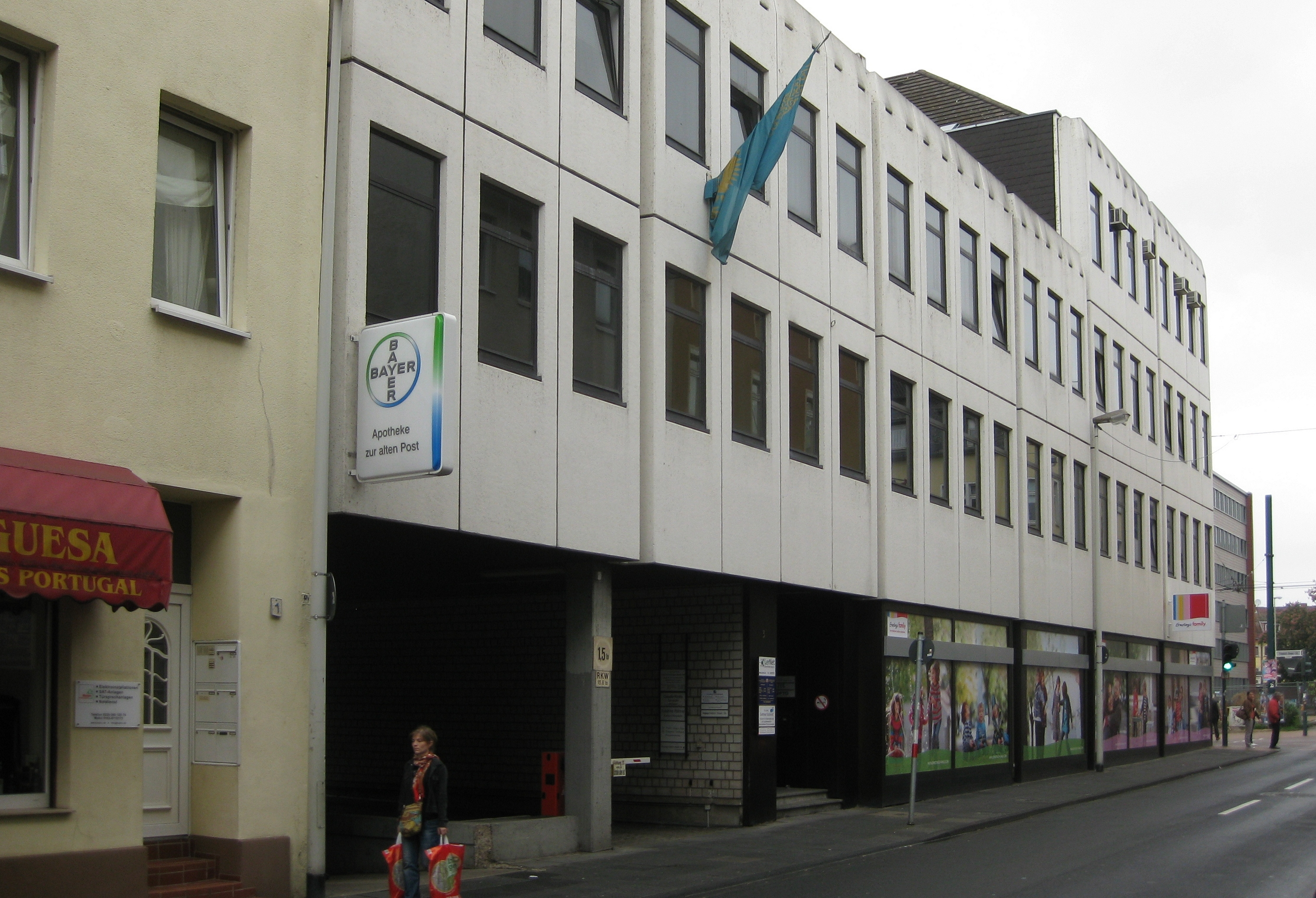 Germany, Bonn: Office of the embassy of Kazakhstan in Bonn Beuel.